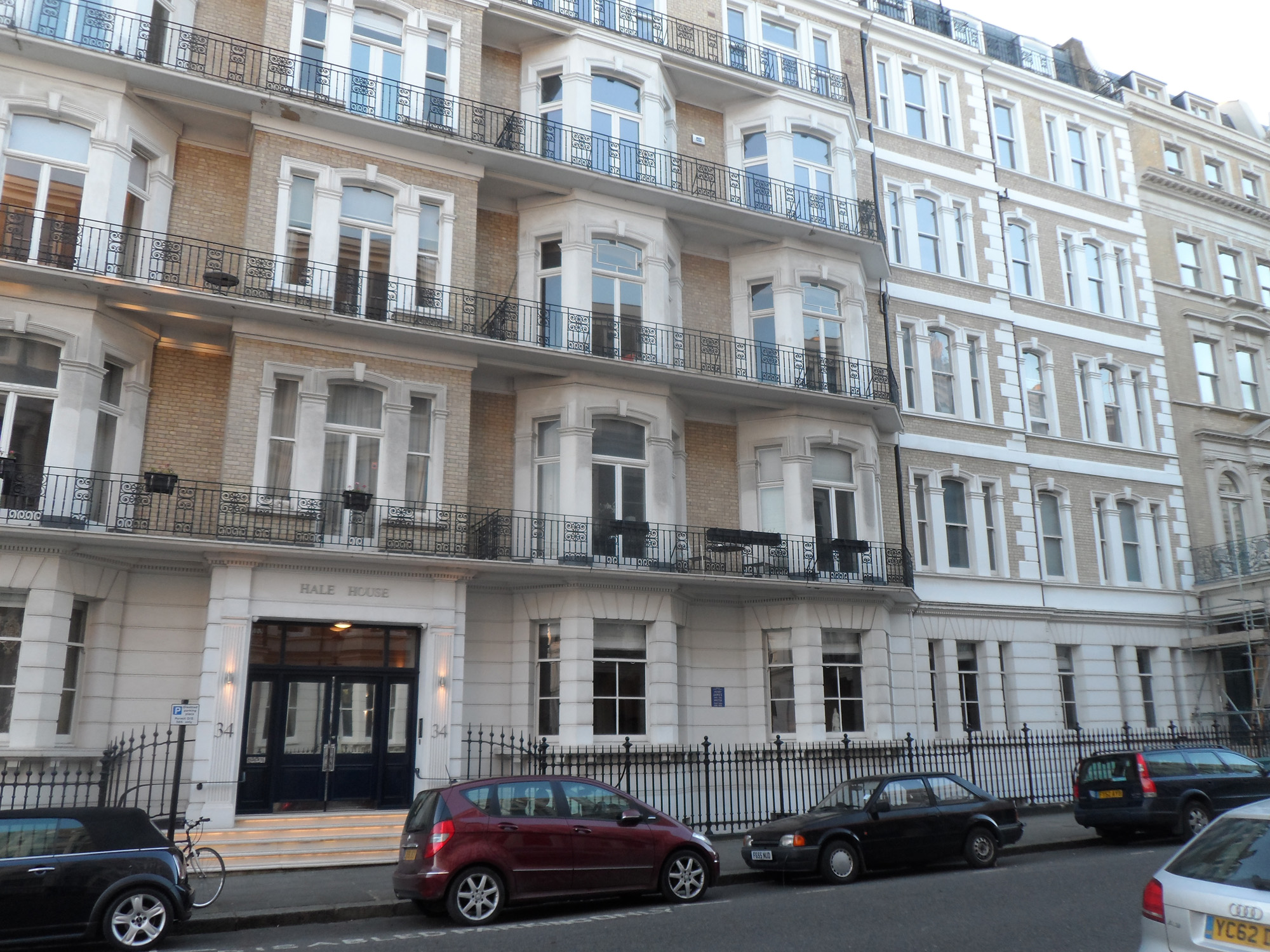 Henry James 1843 - 1916 writer lived here 1886 - 1902